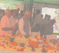 Lal Krishna Advani giving tribute to Dattopant Thengadi.